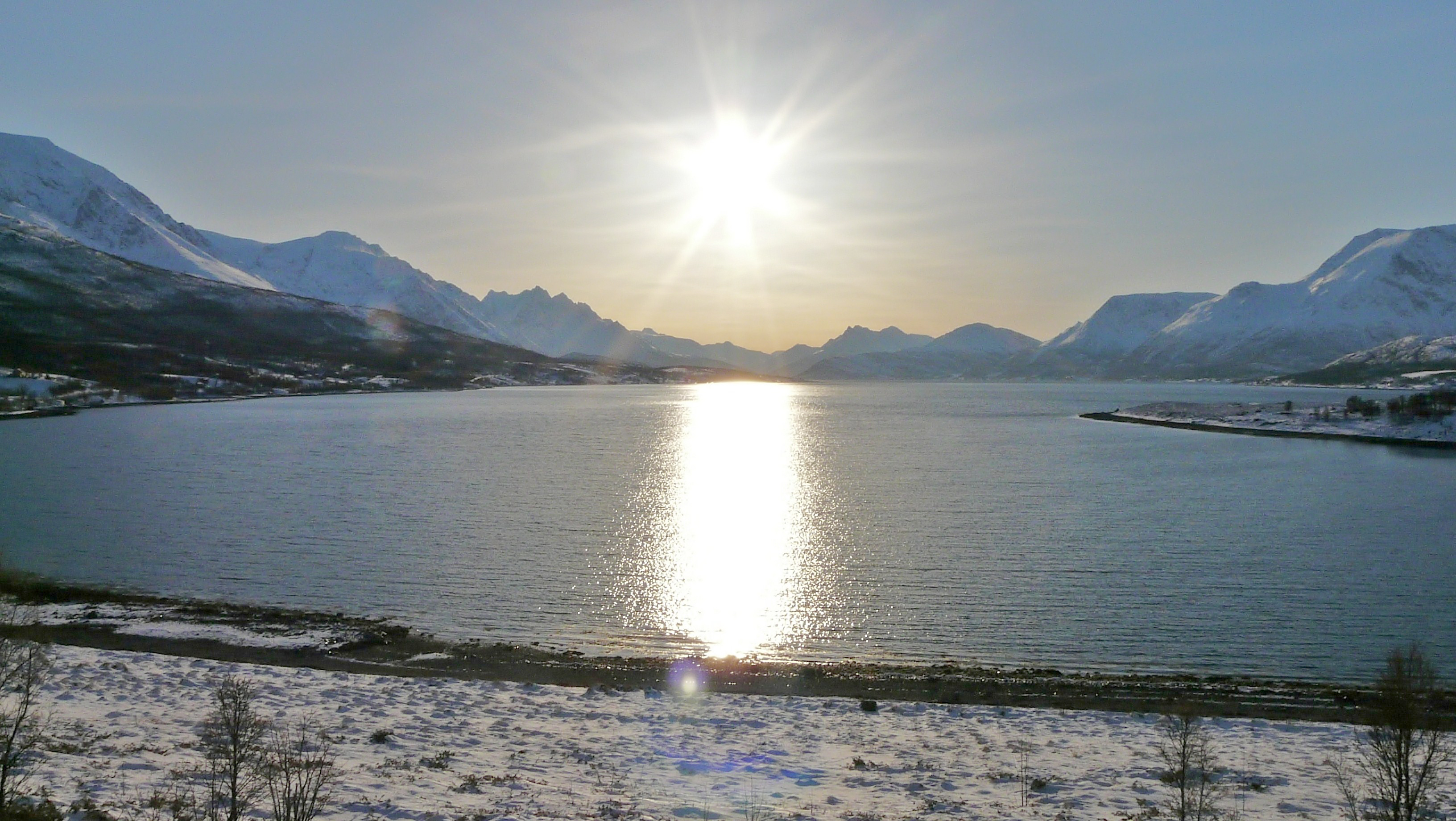 An afternoon view of Sørfjorden towards south as seen from a coast by the Fylkesvei 293 road at Straumsbukta in 2009 February.